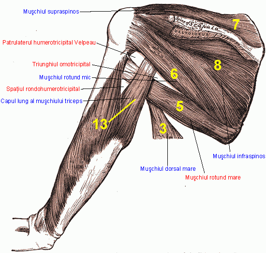 Teres major muscle